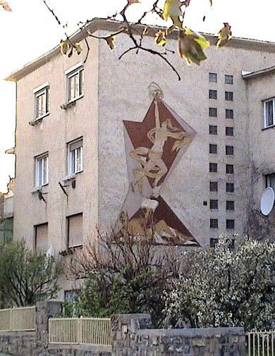 Sgraffito of Tibor Duray, Miskolc, Hungary